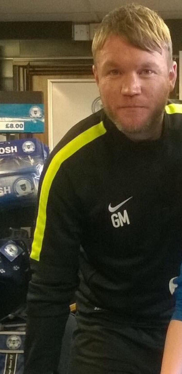 Grant McCann at a PUFC signing